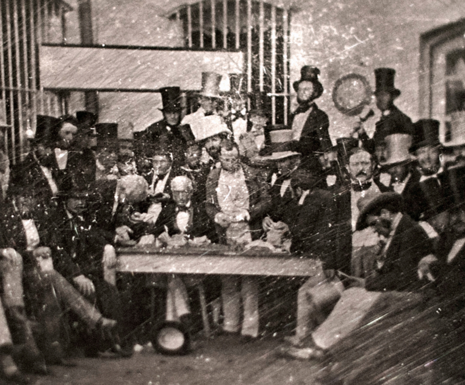 Members of the "Sociedad El Camoatí" (1848-1856), the first stock exchange in Buenos Aires which ran from 1846. Daguerreotype.